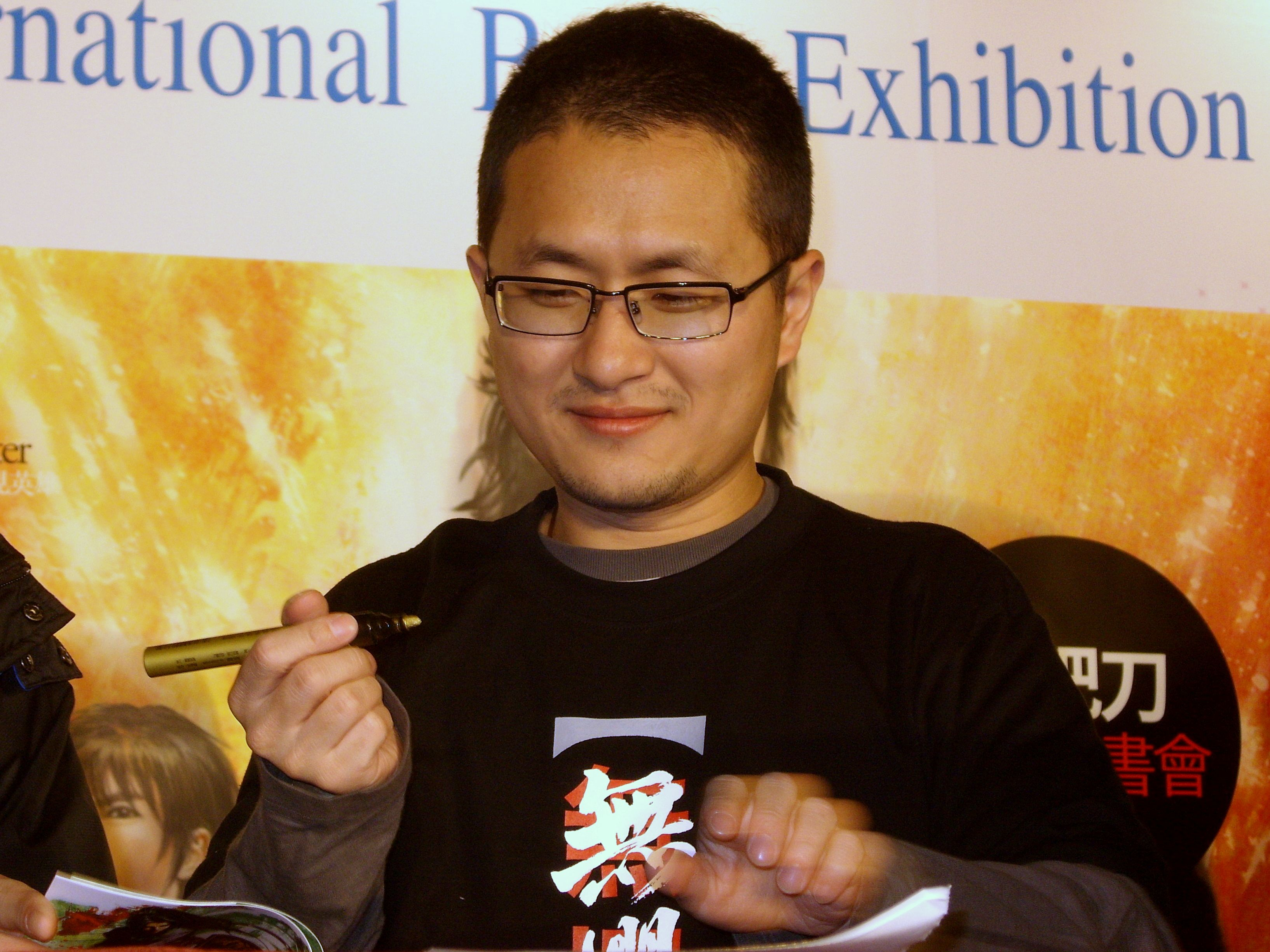 2008 Taipei International Book Exhibition - Signing Stage of Comic Hall (Hall 2): "Giddens" in Signing.